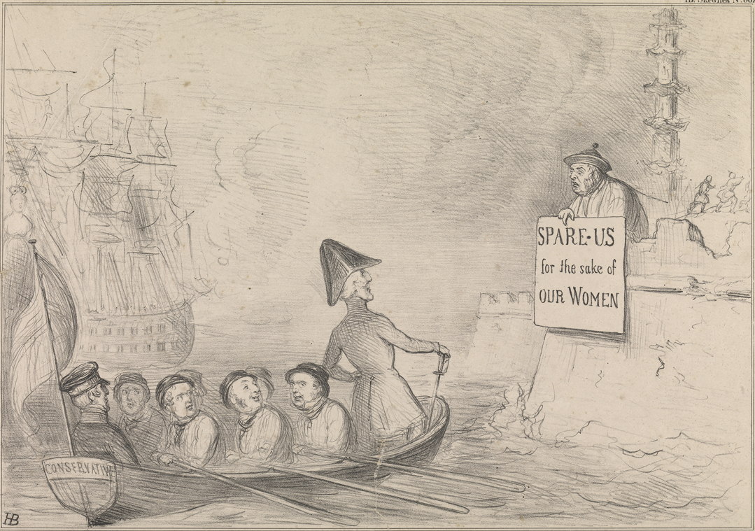 A satire of the Bedchamber Crisis. The assault of the Conservative Party on the Whig government is compared to the British taking of Chusan during the First Opium War (1839-42). It shows Robert Peel in the stern and Wellington in the bow of a man-of-war's boat full of Conservatives, approaching a fort, on which Viscount Melbourne, dressed as a Chinaman, hangs a board inscribed: "Spare Us for the Sake of Our Women". In 1839, Viscount Melbourne resigned as Prime Minister and Queen Victoria asked Peel to form a new government. However, the Conservatives were a minority in the House of Commons and fearing that forming a weak government would damage his future, Peel refused unless the Queen purged her ladies of the bedchamber, her closest companions, many of whom were the wives or daughters of Whig politicians. No agreement was reached, so Melbourne was persuaded to stay on. On 8 December 1840, The Times reported the assault on Chusan: "On landing, the troops found the city and suburbs abandoned by the inhabitants, with the exception of one man, who was holding up a board, with this inscription upon it - 'Save us for the sake of our wives and children'." Doyle could not let the opportunity for satire pass. The Conservatives continued to make headway and in 1841 Peel got a majority in the General Election, replaced Melbourne and removed the Whig ladies. As Victoria had married Albert in 1840 she relied on them less and so made no complaint.[1]